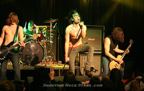 Nico Constantine on stage with Matt Koruba and Tommy Kafafian and Jimbo Easteregg